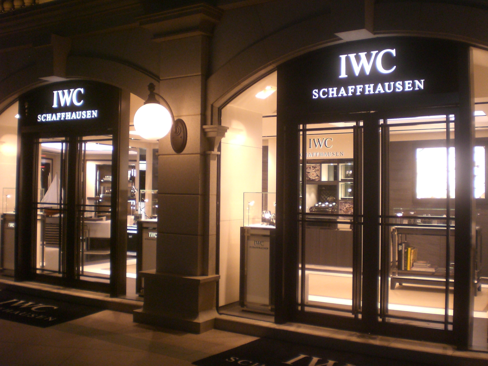 尖沙咀zh:1881 Heritage 萬國表